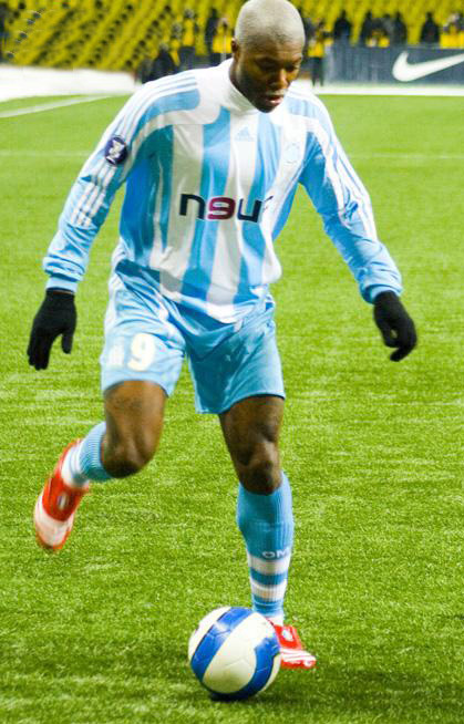 Djibril Cissé